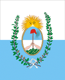 Flag of Mendoza Province, Argentina. It is also the flag of the Army of the Andes.